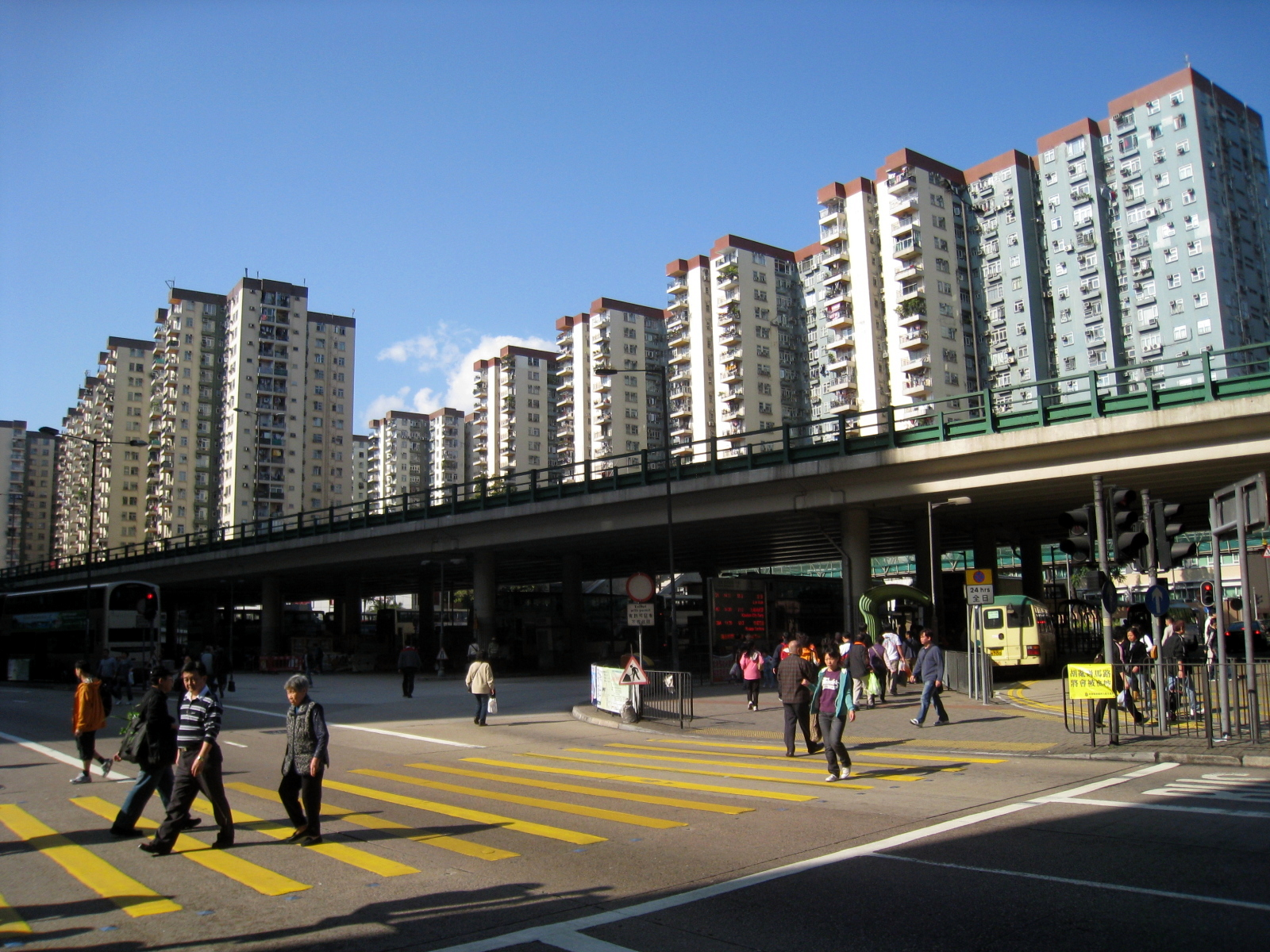 Mei Foo Sun Chuen